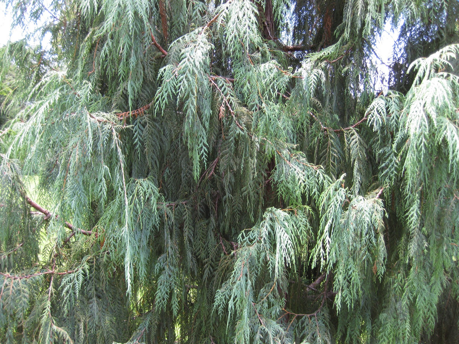 Photographed at the Royal Botanic Gardens Melbourne (Australia) in December